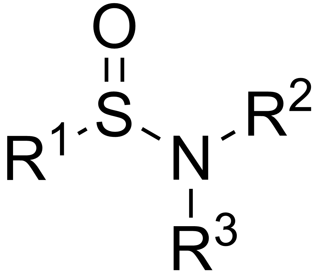 General chemical structure of the sulfinamide functional group